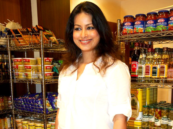 Suvarna Jha